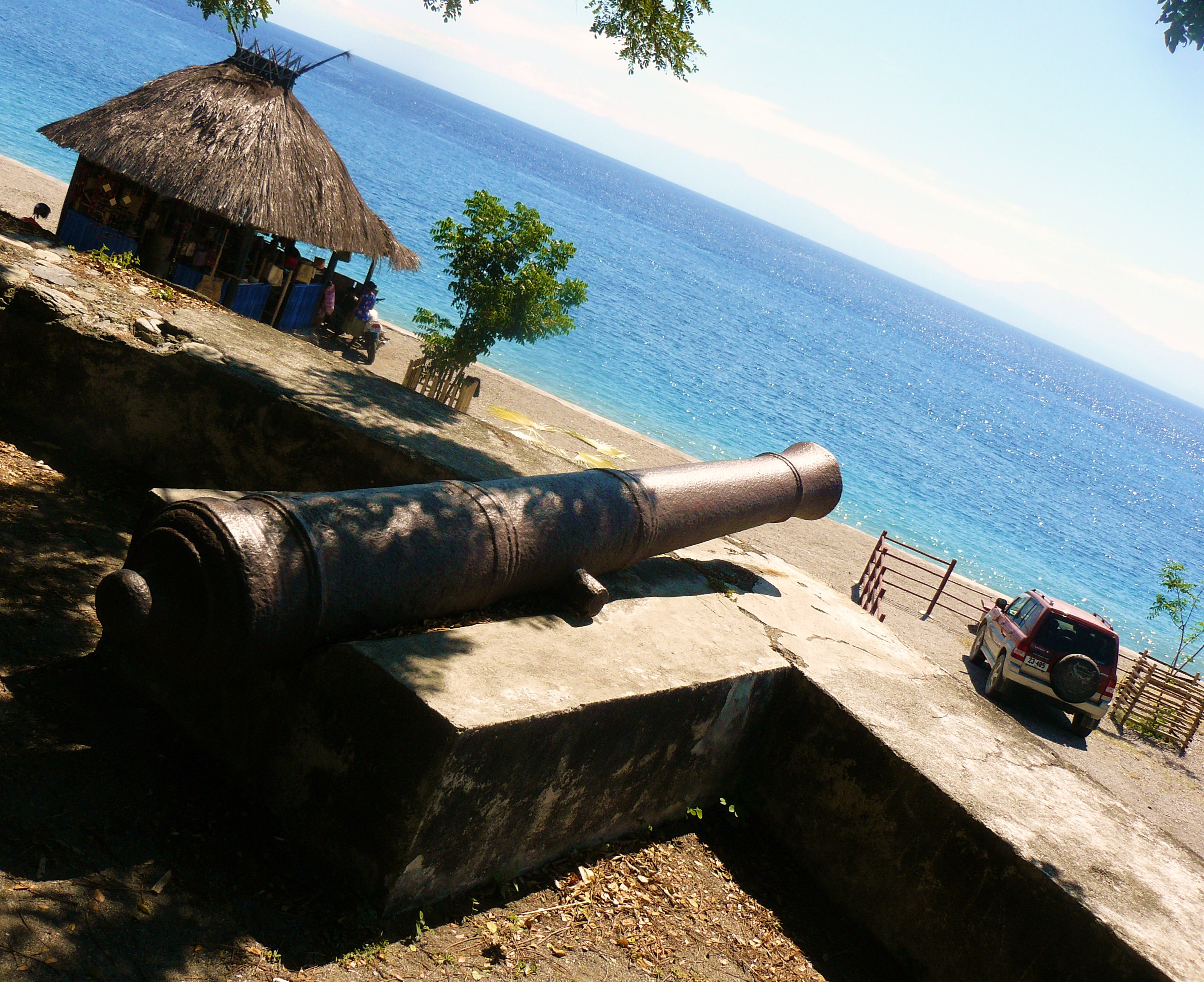 Colonial Fortress in Maubara, East Timor